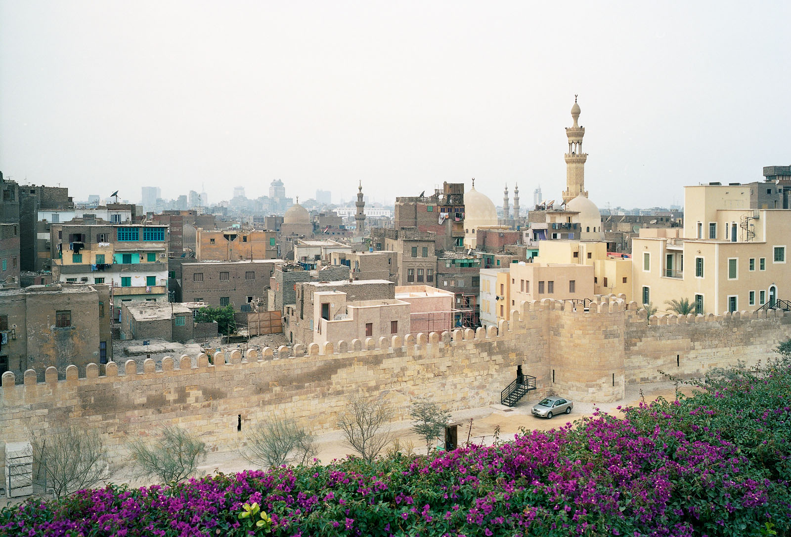 Ayyubid Wall seen from Al-Azhar Park in Cairo.